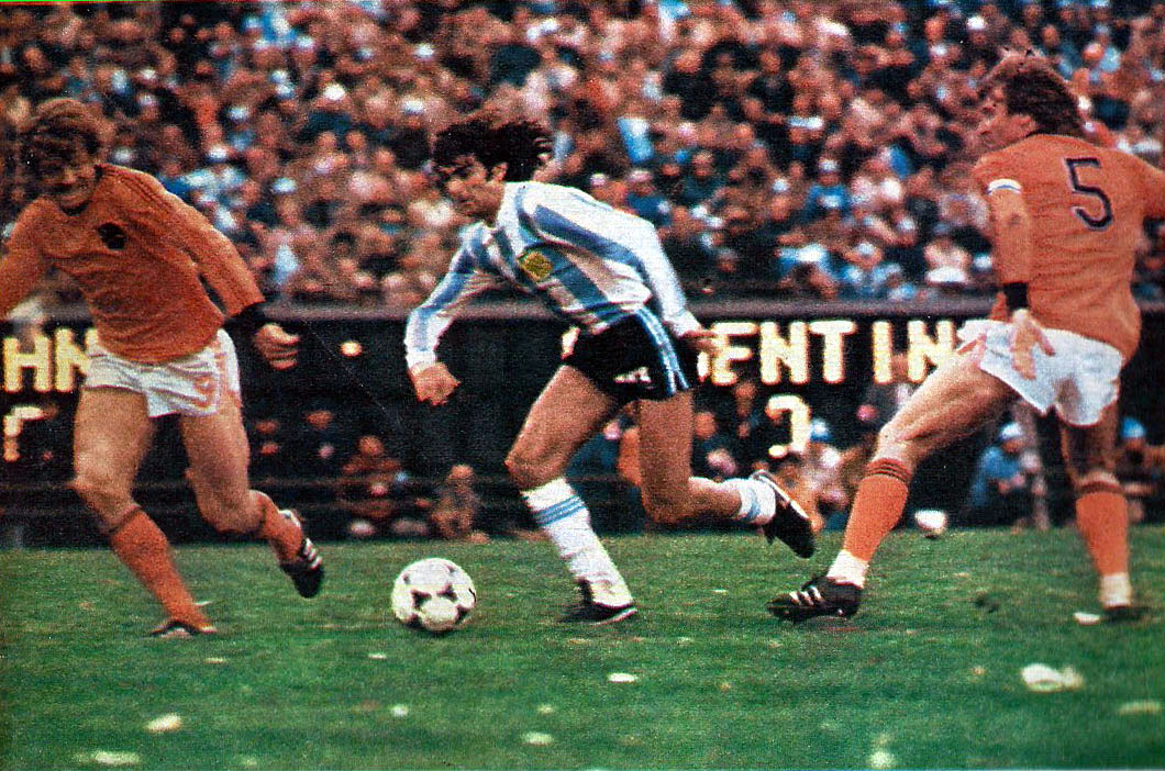 Argentine striker Mario Kempes carrying the ball in the final match v. Netherlands, 1978 FIFA World Cup